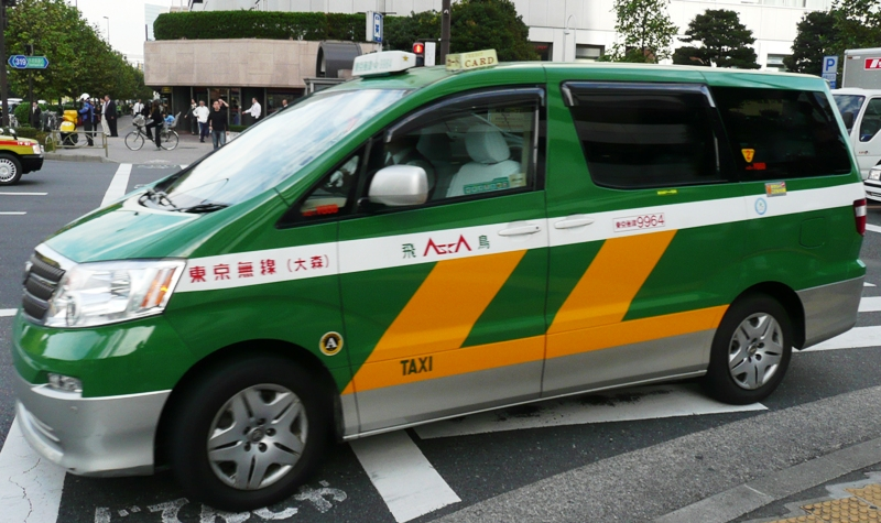 Toyota Alphard.